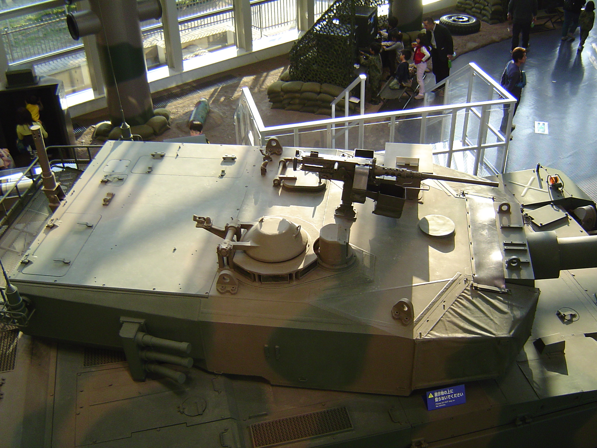 MBT Type 90 of JGSDF at JGSDF PI center. ja:90式戦車 Typ 90 (Japan) Type 90 he:Type 90 Mitsubishi Type 90 Mitsubishi Type 90 Type 90 Mitsubishi Tip 90 zh:90式戰車